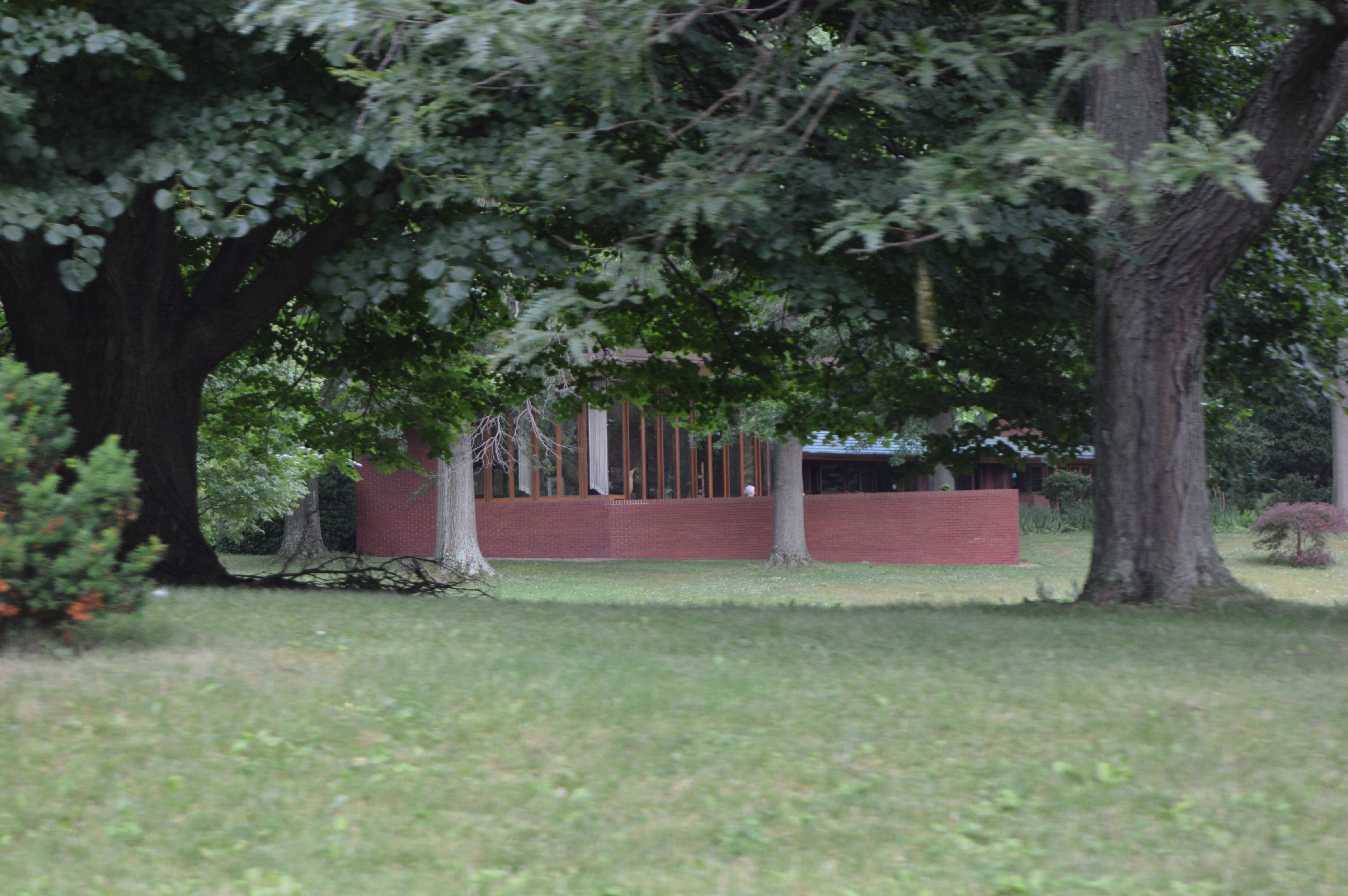 Roadside view of the John and Syd Dobkins House, located at 5120 Plain Center Road in Canton, Ohio, United States. Built in 1954, it was designed by Frank Lloyd Wright, and it is listed on the National Register of Historic Places.